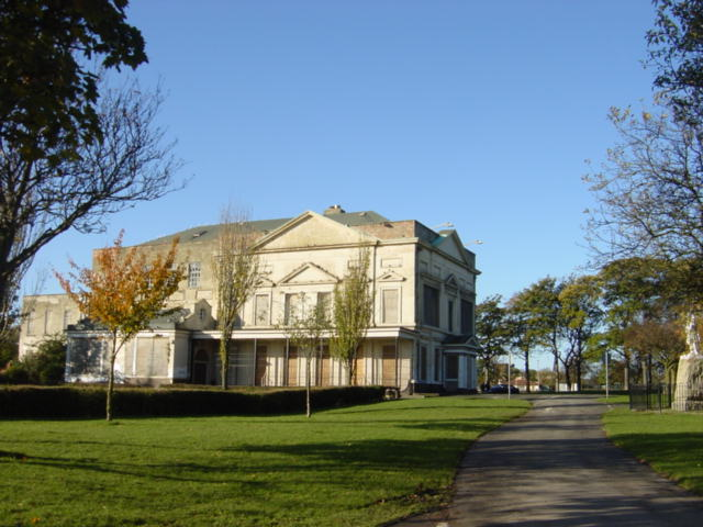 Liscard Hall, Central Park. In the early nineteenth century, Liscard Hall (then called Moor Heys House) and the surrounding parkland was home of Sir John Tobin, ship owner, merchant, African trader and one-time Mayor of Liverpool. On the death of his successor, son-in-law Harold Littledale in 1889, Wallasey Local Board bought the estate and opened it to the public on Whit Monday 1891. The building is disused and in disrepair.